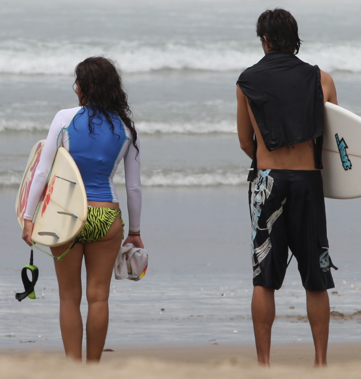 A woman and a man, each with a rashguard t-shirt.